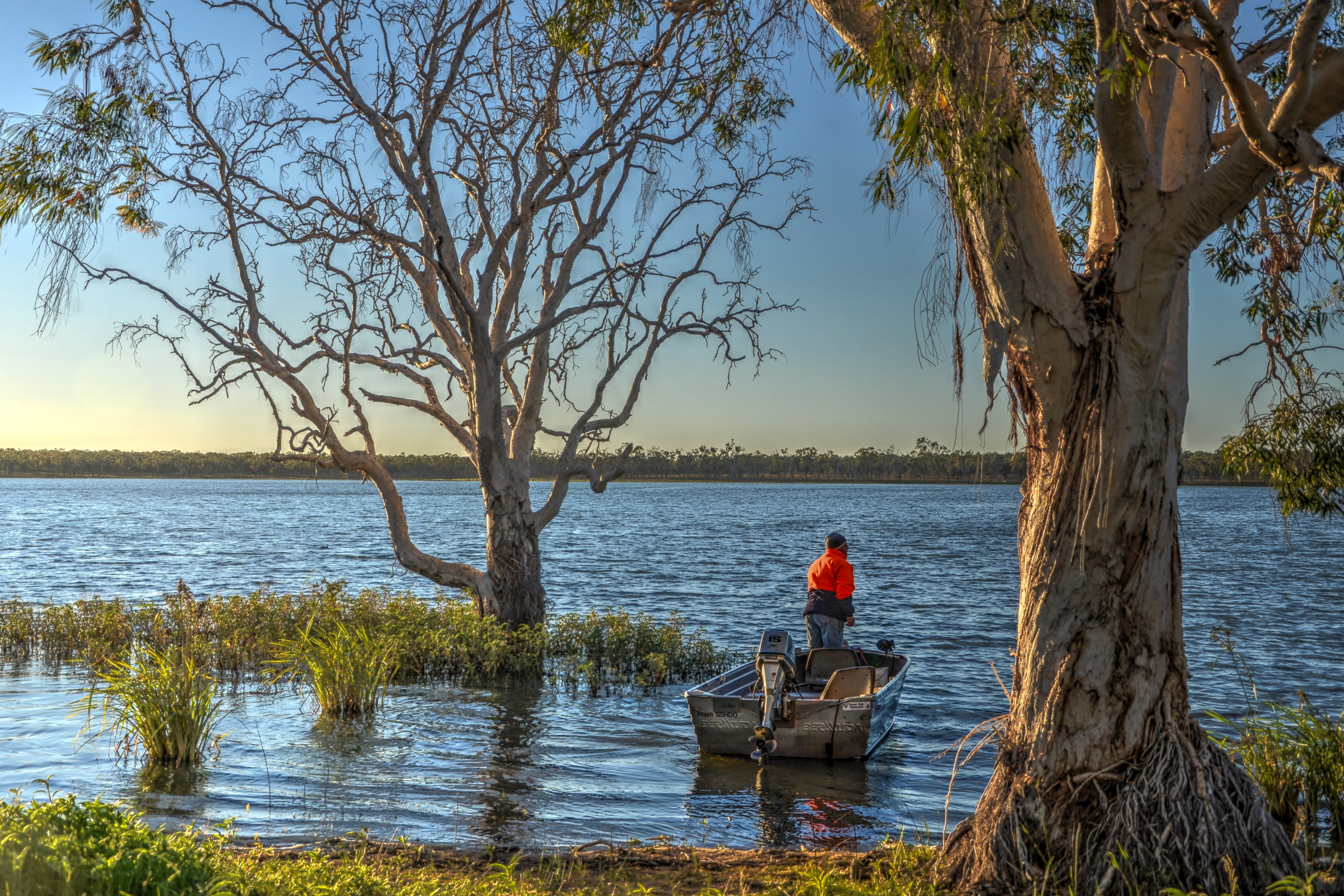 Let's Go Fishing, Lake Elphinstone, Queensland, Australia, 29 June 2016